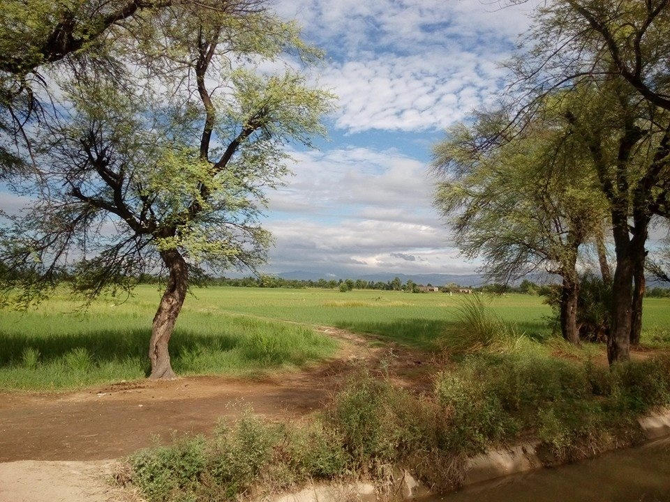 Pleasant